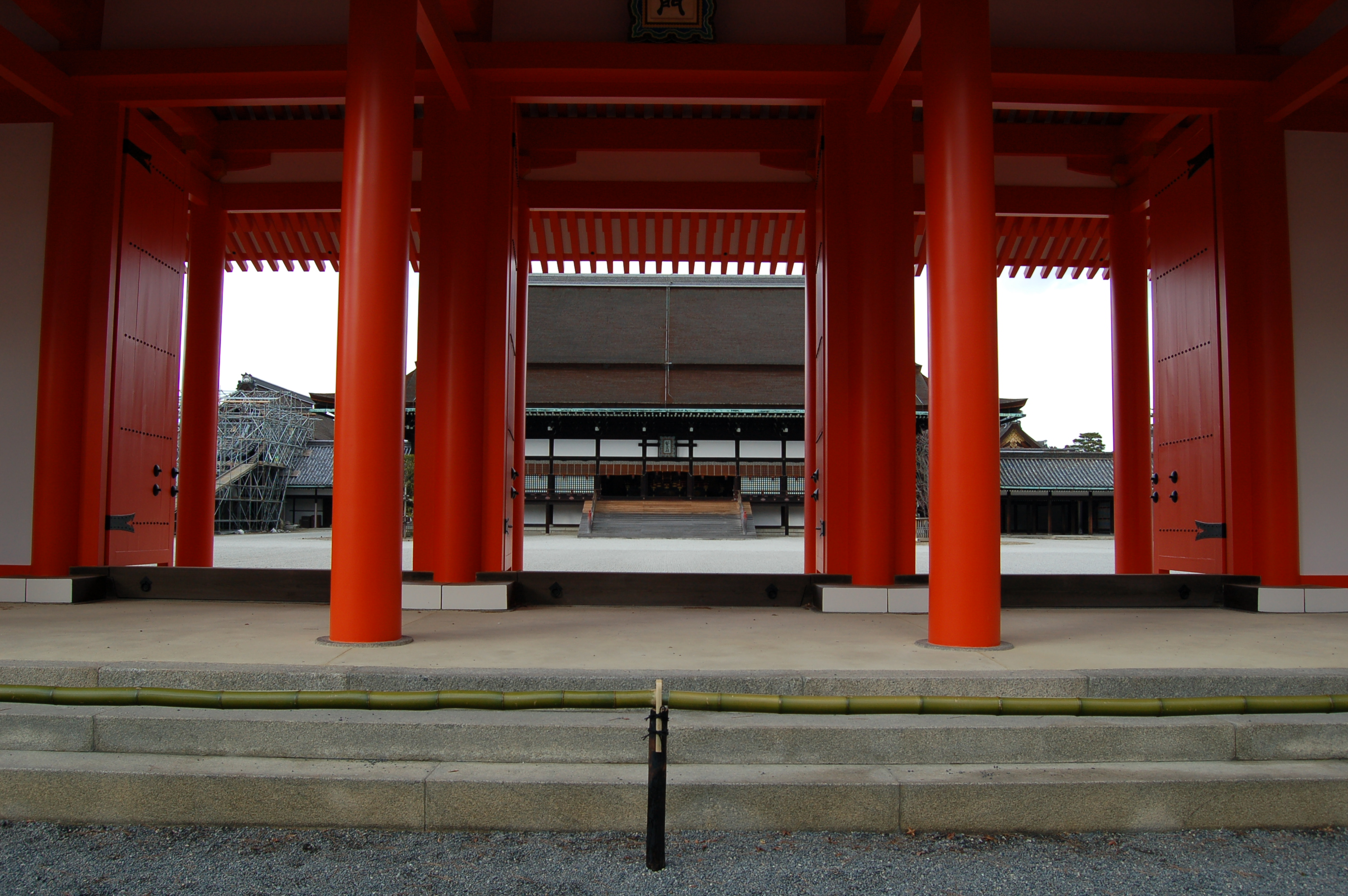 Picture of the Imperial Palace in Kyoto on December 2005. This Picture was taken by Kim Rötzel